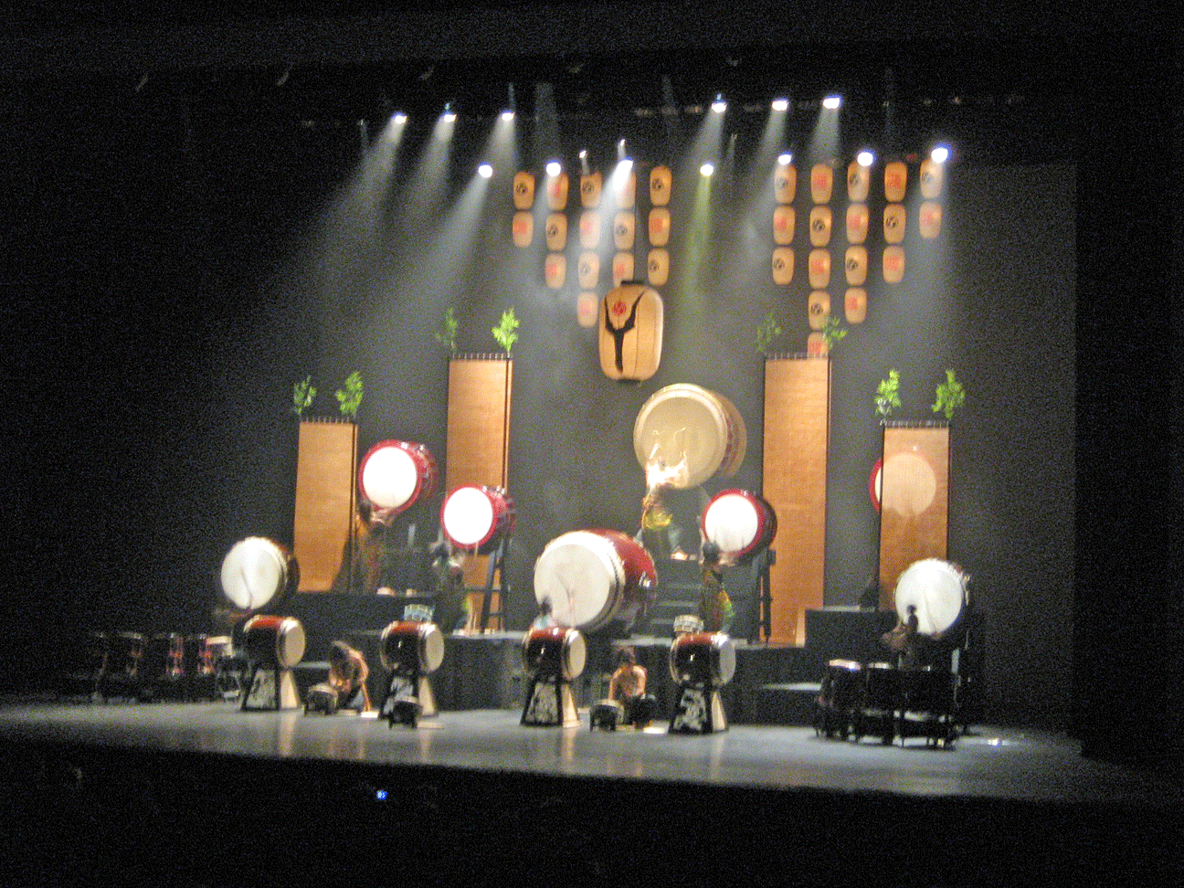 Wadaiko Yamato on tour at the Belgrade 2010 Yamato Matsuri Fiesta